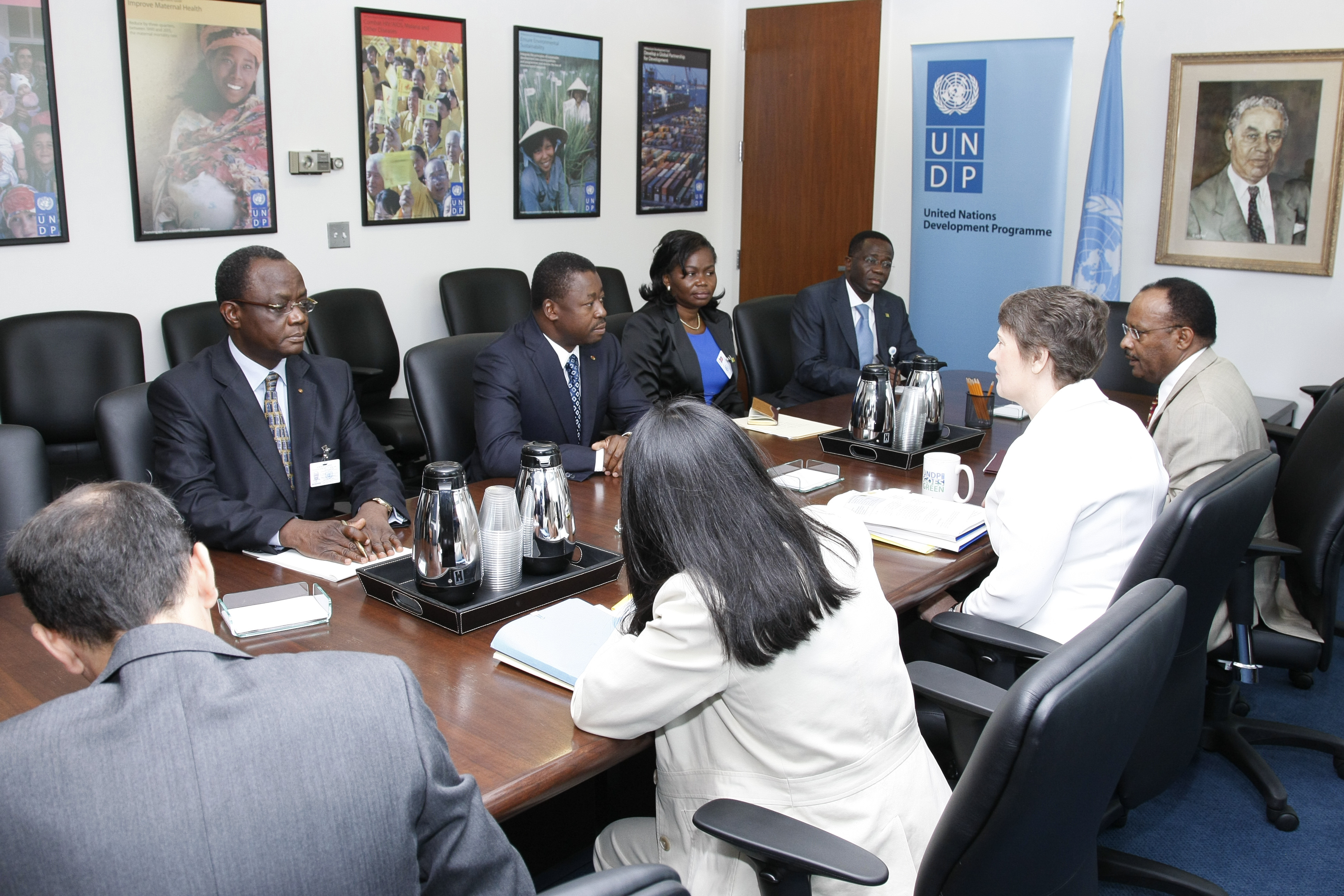 UNDP Helen Clark meeting with TOGO President Faure Essozimna Gnassingbe